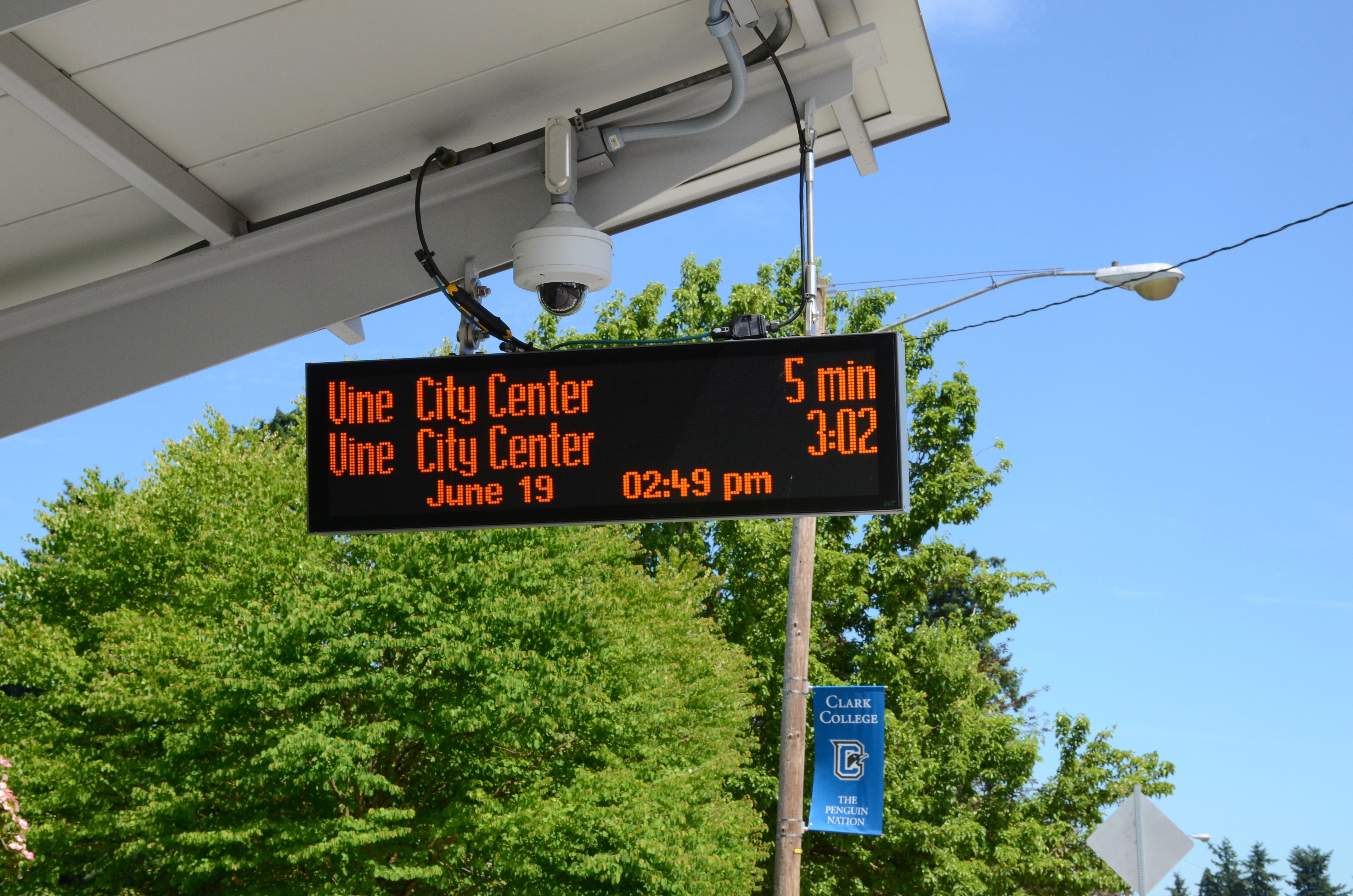 Digital real-time arrival information display at a station on C-Tran's "The Vine" service. This sign is at the westbound Marshall/Luepke Community Center station.